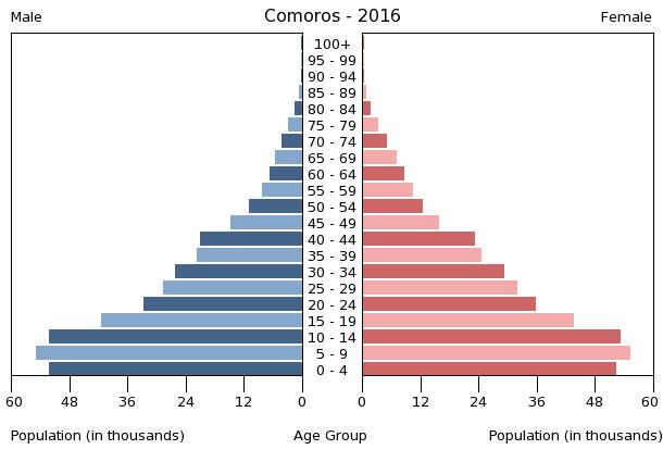 The population pyramid of Comoros illustrates the age and sex structure of population and may provide insights about political and social stability, as well as economic development. The population is distributed along the horizontal axis, with males shown on the left and females on the right. The male and female populations are broken down into 5-year age groups represented as horizontal bars along the vertical axis, with the youngest age groups at the bottom and the oldest at the top. The shape of the population pyramid gradually evolves over time based on fertility, mortality, and international migration trends.